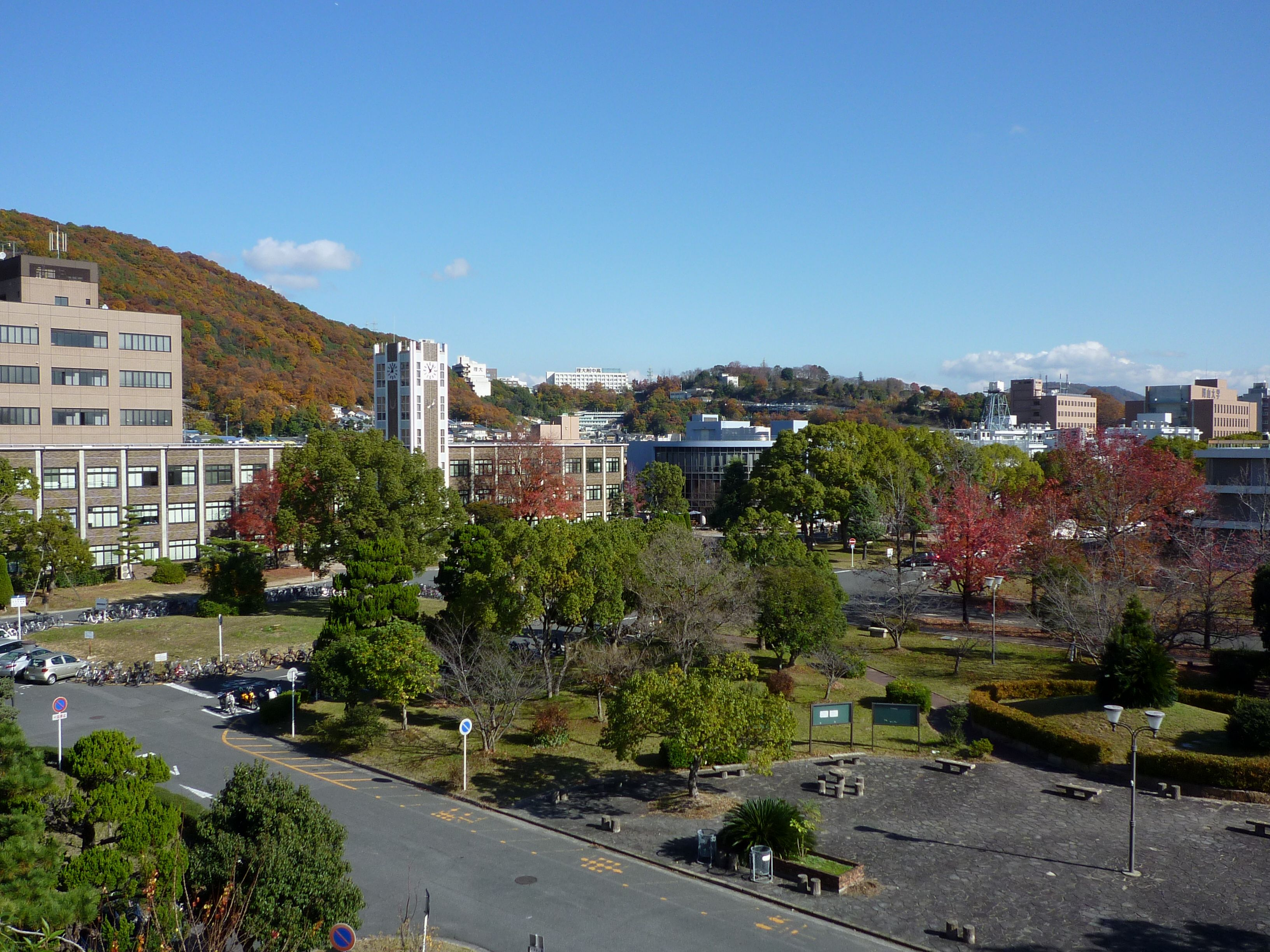 Okayama University Tsushima Campus (near), and Okayama University of Science (far), Kita-ku, Okayama, Okayama Prefecture, Japan)